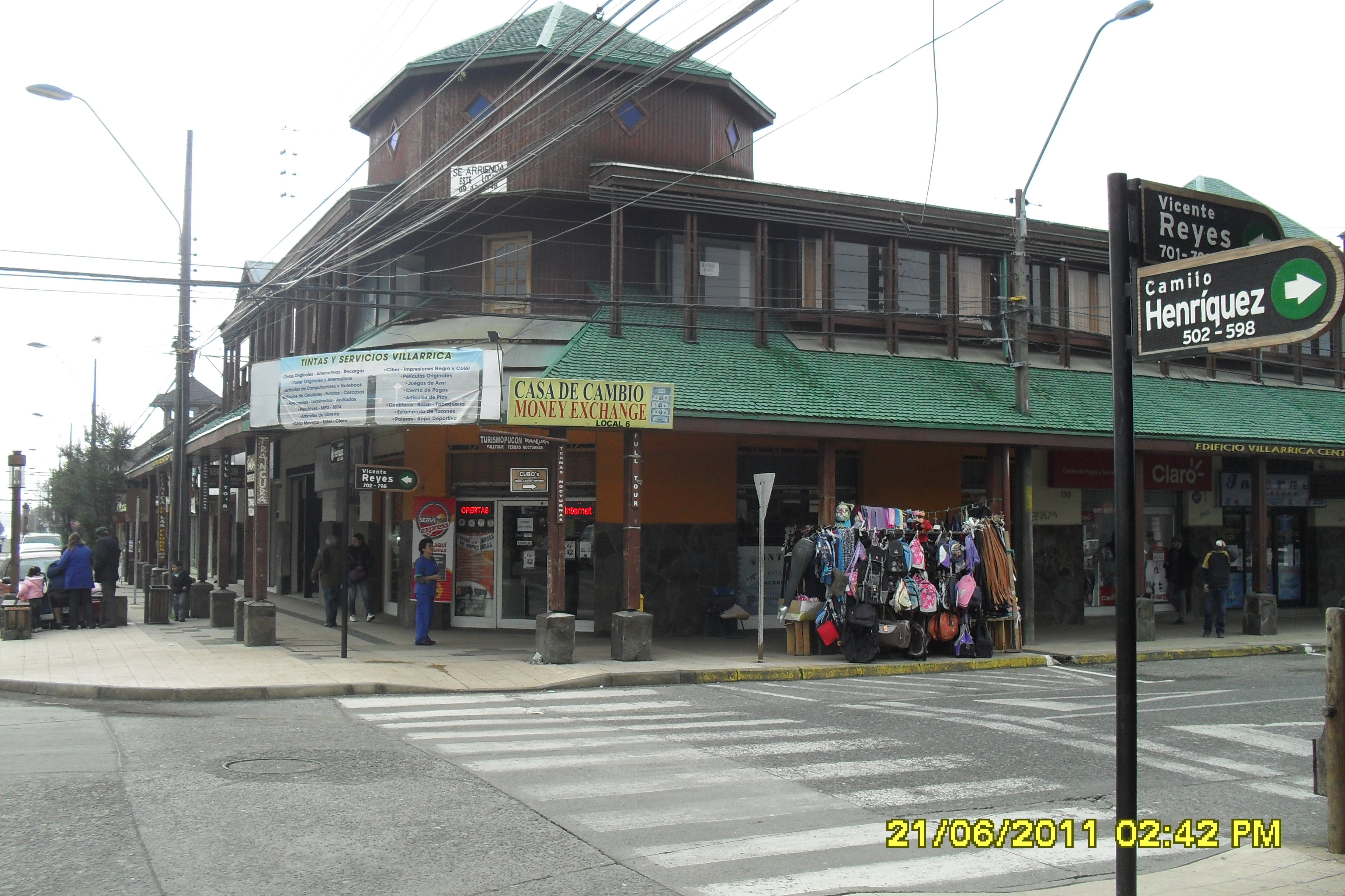 Edificios de Villarrica